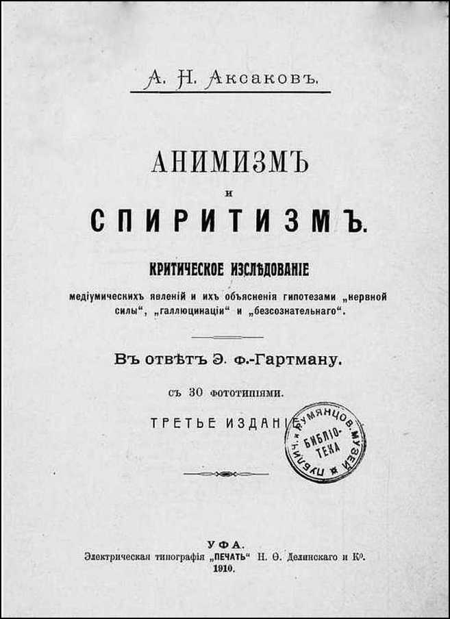 Alexander Aksakov's book Animism and Spiritism. Title page of the 3rd edition.